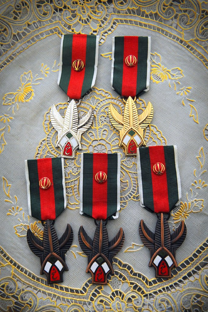 Fath grade 1: gold colour Fath grade 2: silver colour Fath grade 3: bronze colour